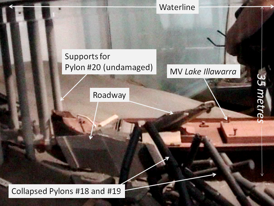 Model in Tasmanian Museum showing the scene on the bottom of the Derwent River following the Tasman Bridge Disaster